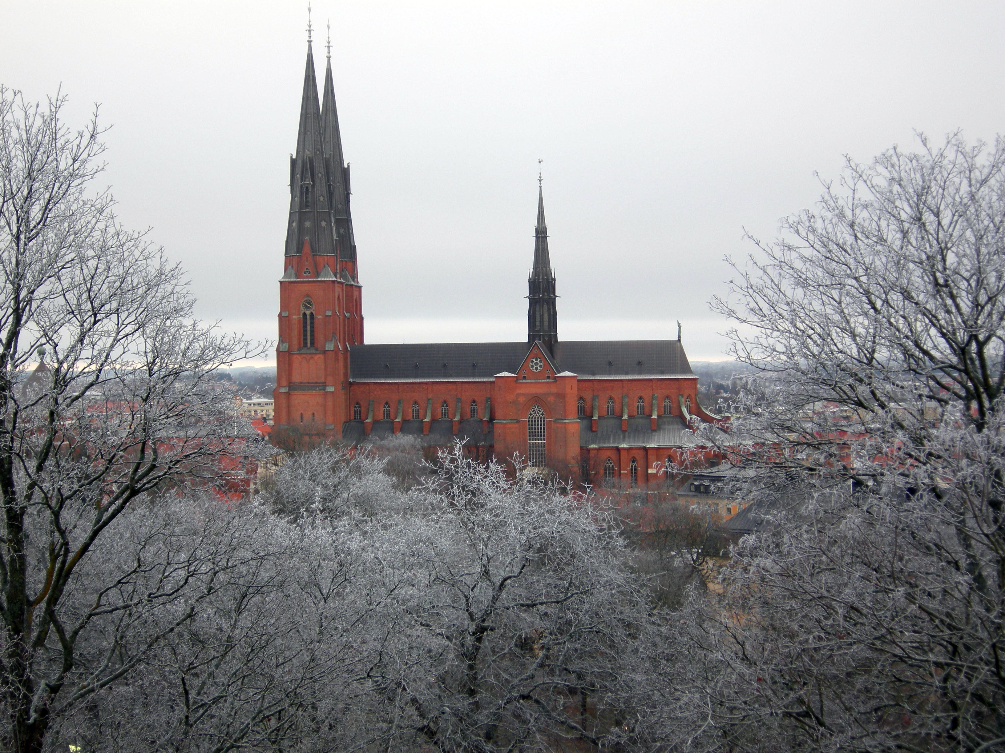 Uppsala Cathedral (Lutheran) in December 2007.